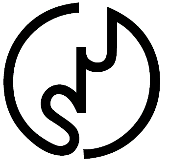 copy from en JIS symbol, from unicode font: 〄